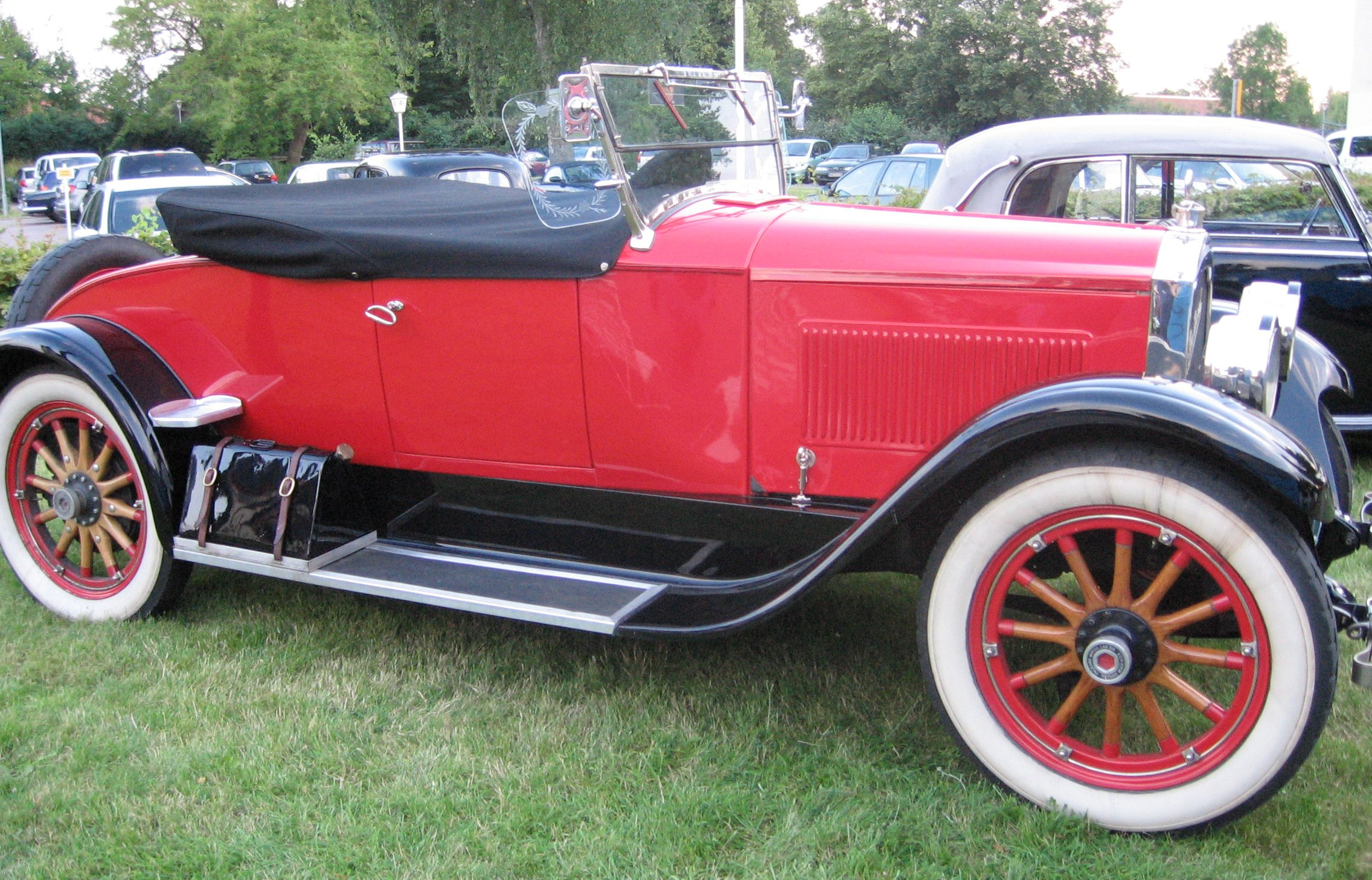 Packard Single Six Runabout, 1922